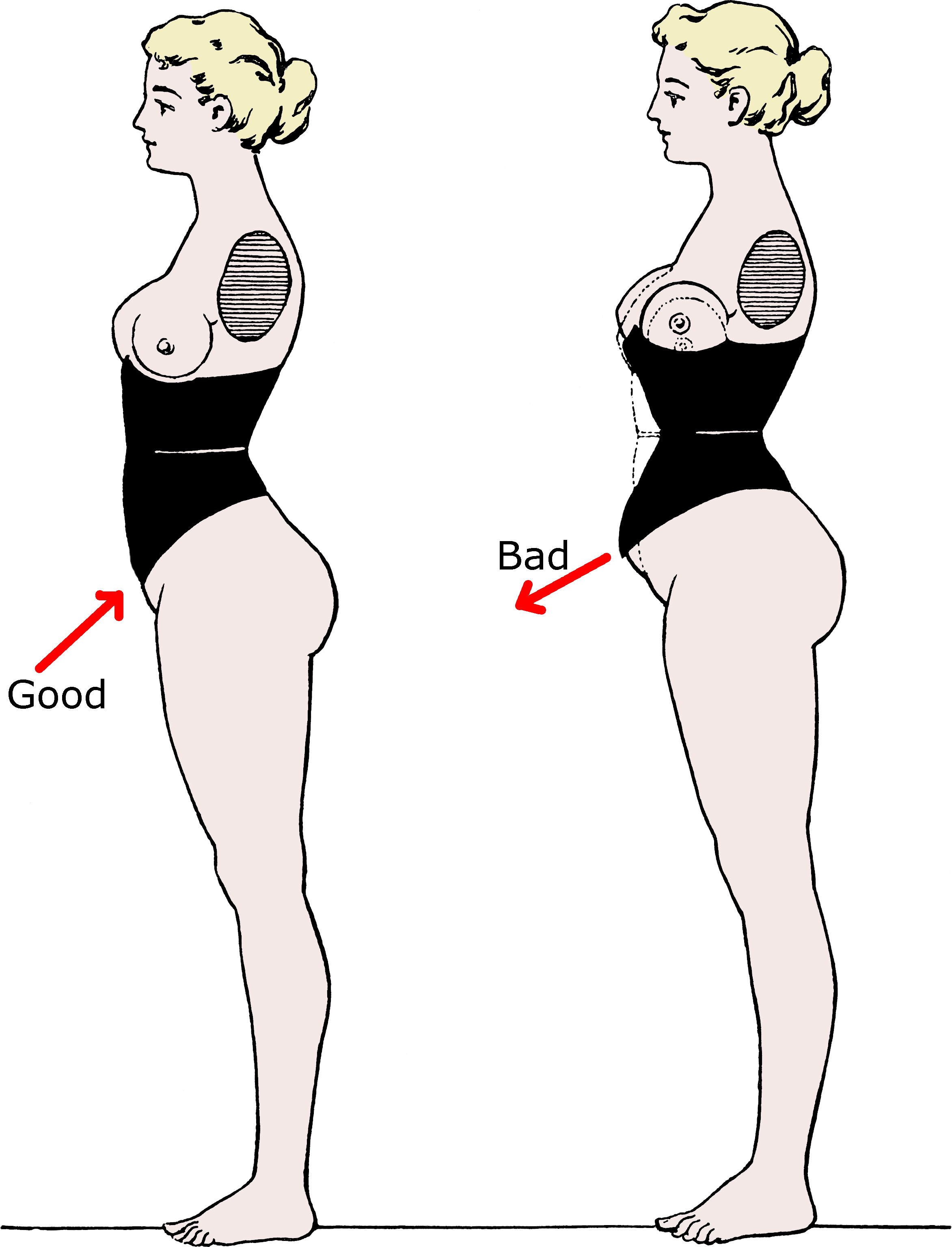 It is important as the abdomen been push up and not pressed down.